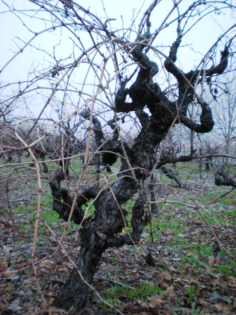 Gnarly grape vines in Sonoma AVA, aka Valley of the Moon. (Taken at Valley of the Moon Winery)